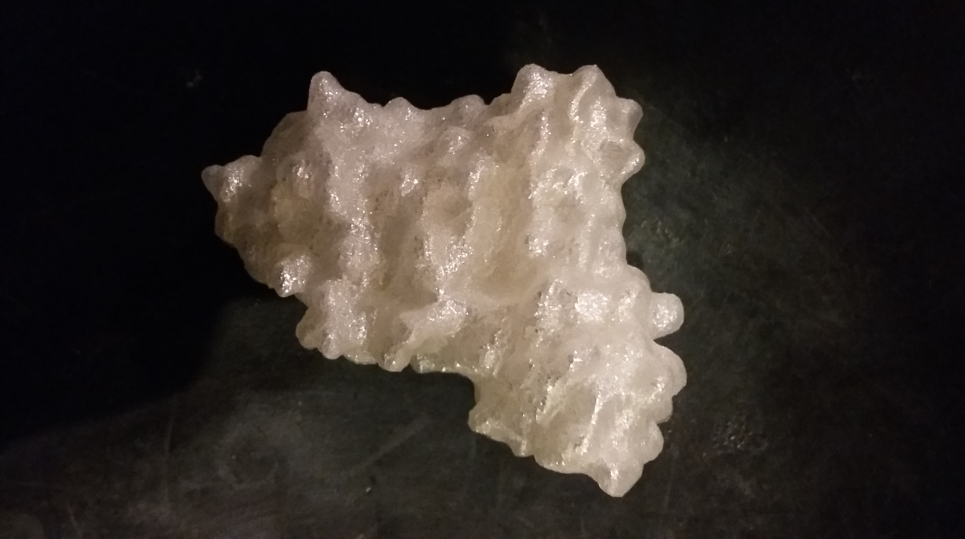 3D printed space filling model of Photolyase based on 1QNF